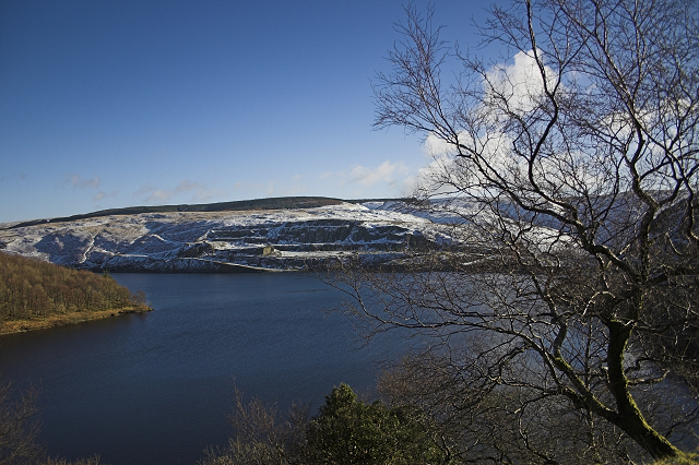 Rhandirmwyn Reservoir. Looking to the east over the water on a lovely january afternoon